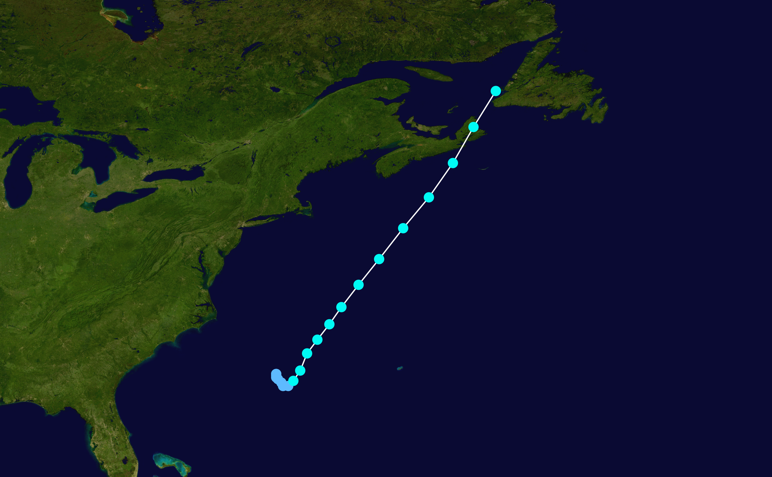 Track map of Tropical Storm Barry of the 1995 Atlantic hurricane season. The points show the location of the storm at 6-hour intervals. The colour represents the storm's maximum sustained wind speeds as classified in the Saffir–Simpson scale (see below), and the shape of the data points represent the nature of the storm, according to the legend below. Saffir–Simpson scale Tropical depression≤38 mph≤62 km/h Category 3111–129 mph178–208 km/h Tropical storm39–73 mph63–118 km/h Category 4130–156 mph209–251 km/h Category 174–95 mph119–153 km/h Category 5≥157 mph≥252 km/h Category 296–110 mph154–177 km/h Unknown Storm type Tropical cyclone Subtropical cyclone Extratropical cyclone / Remnant low / Tropical disturbance / Monsoon depression